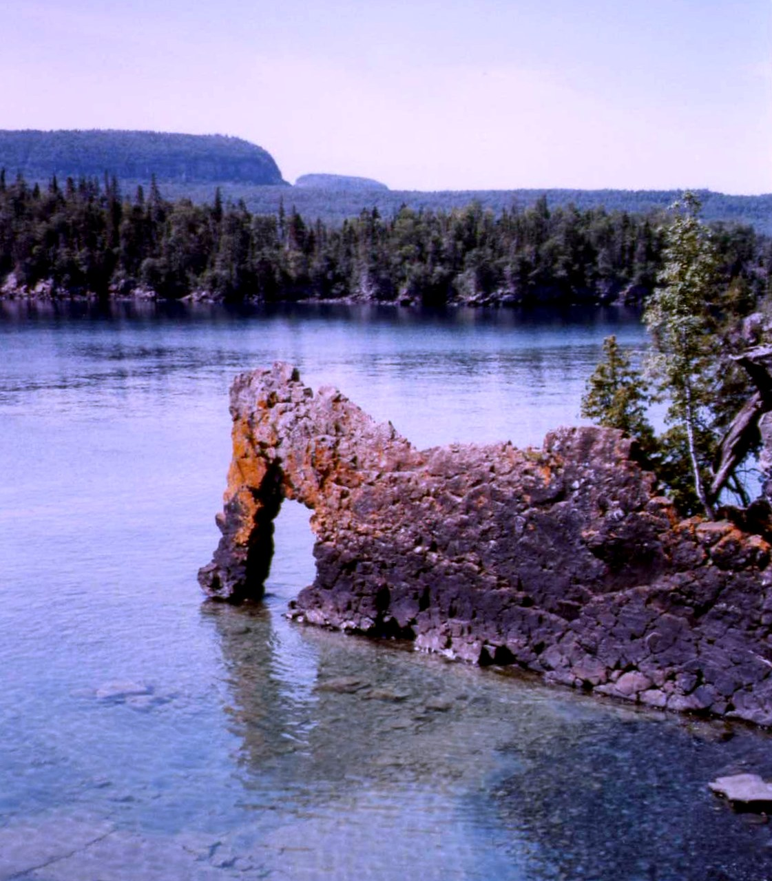 Sea Lion arch and Sleeping Giant, Lake Superior shoreline, Ontario